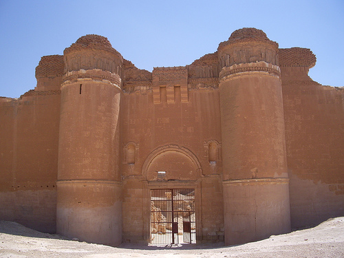 The Main gate of Qasr al-Heir al-Sharqi,Ancient Arabic castle in eastern Syria,the castle was built during the 7th century by the Umayyad caliphs.قصر الحير الشرقي أحد قصور الأمويين في شرق سورية بني في القرن السابع ميلادي بين تدمر و دير الزور.